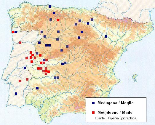 Caída de -g-: Oposiciones Magilo-Mailo y Medugeno-Medueno.